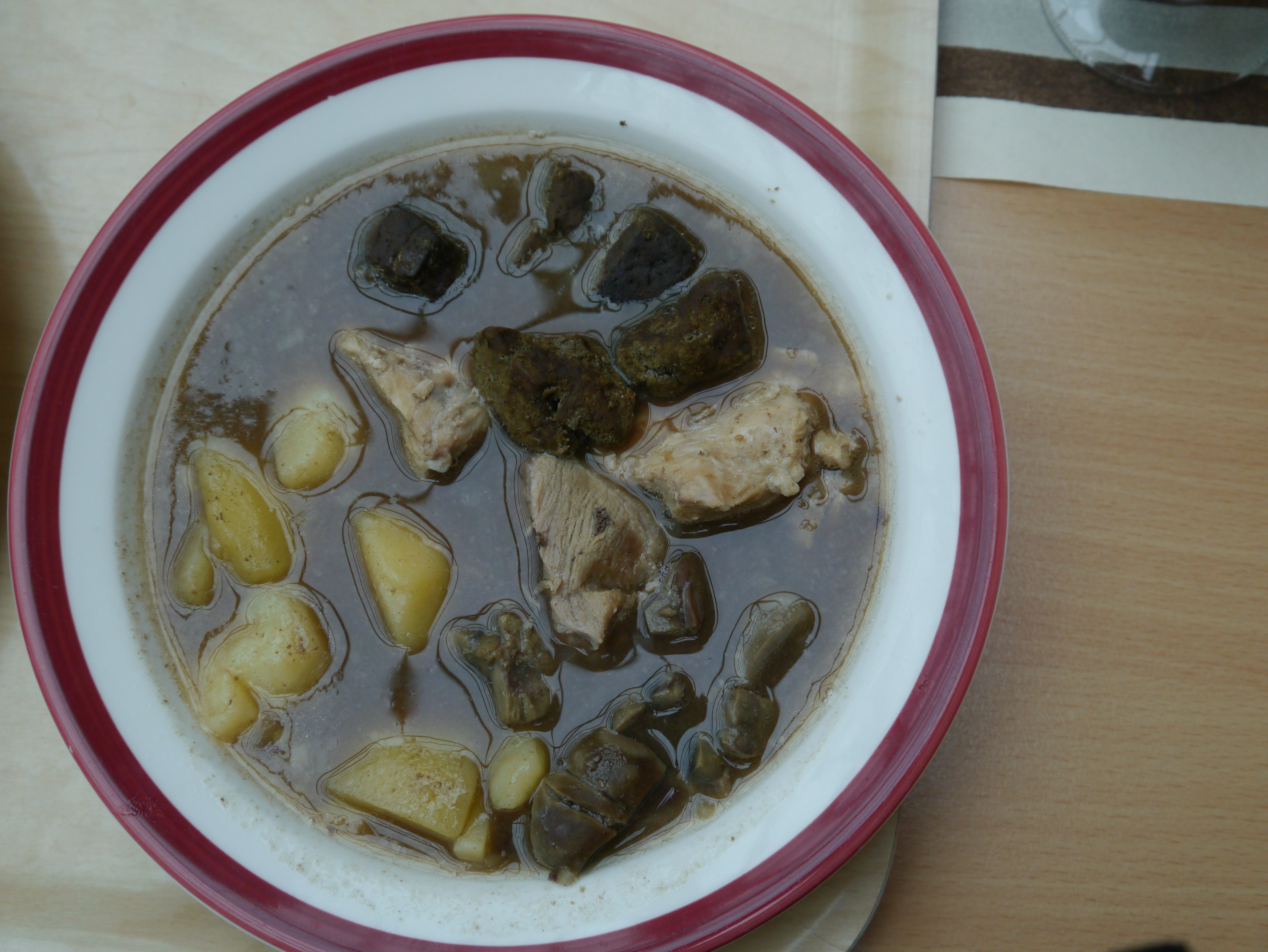 Meat and dumpling soup, in Finnish 'mykyrokka', including pork and cattle meat and offals e.g. pork kidneys, hearts and cattle liver as well as dumplings made of blood,barley flour and onions. It has been a seasonal dish in certain parts of Eastern Finland, Northern Savonia. Today it is known especially in Kiuruvesi town, located at the area mentioned above.